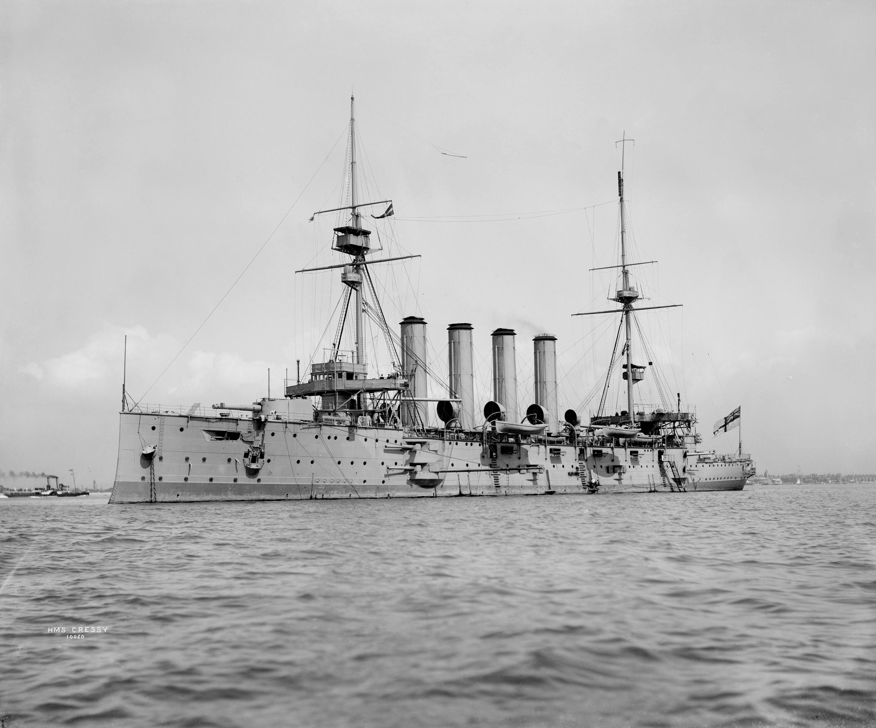 Armoured cruiser HMS Cressy; she was sunk on 22 September 1914, along with her sister ships Aboukir and Hogue, by German U-boat U-9.